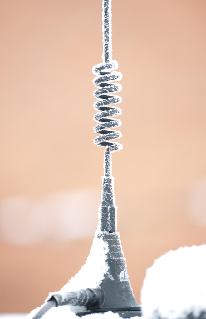 Whip antenna with built-in loading coil mounted on a car. Probably a cell phone antenna. The loading coil allows a shorter, less cumbersome antenna to be used while still being resonant.